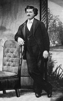 Chrisopher Kit Fancher (survivor of the Mountain Meadows massacre)